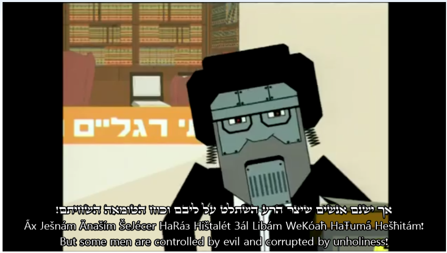 An MK22 Fansub